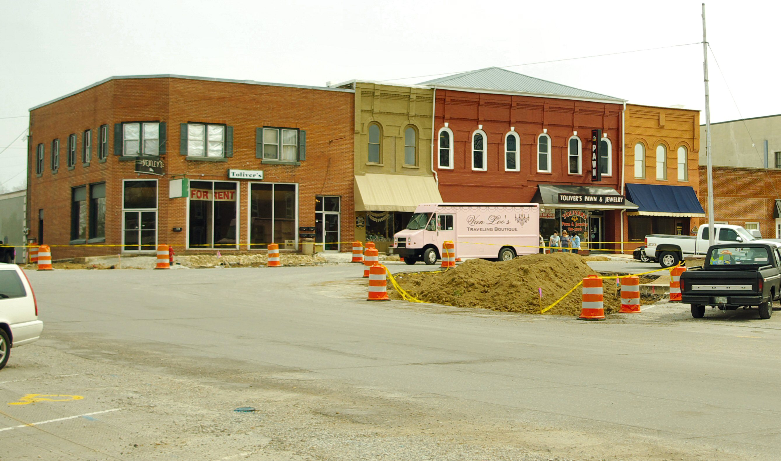 Commercial block on the courthouse square in Manchester, Tennessee, United States